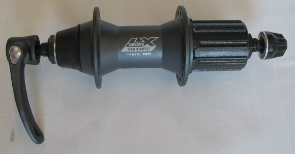 Shimano LX rear hub